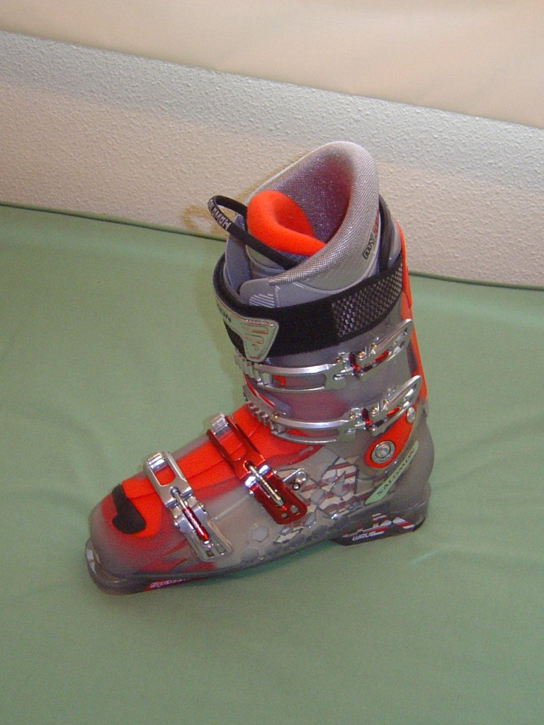 Ski Boots.